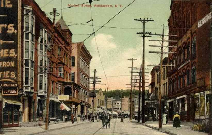 Market Street, Amsterdam, New York; from a 1909 postcard.